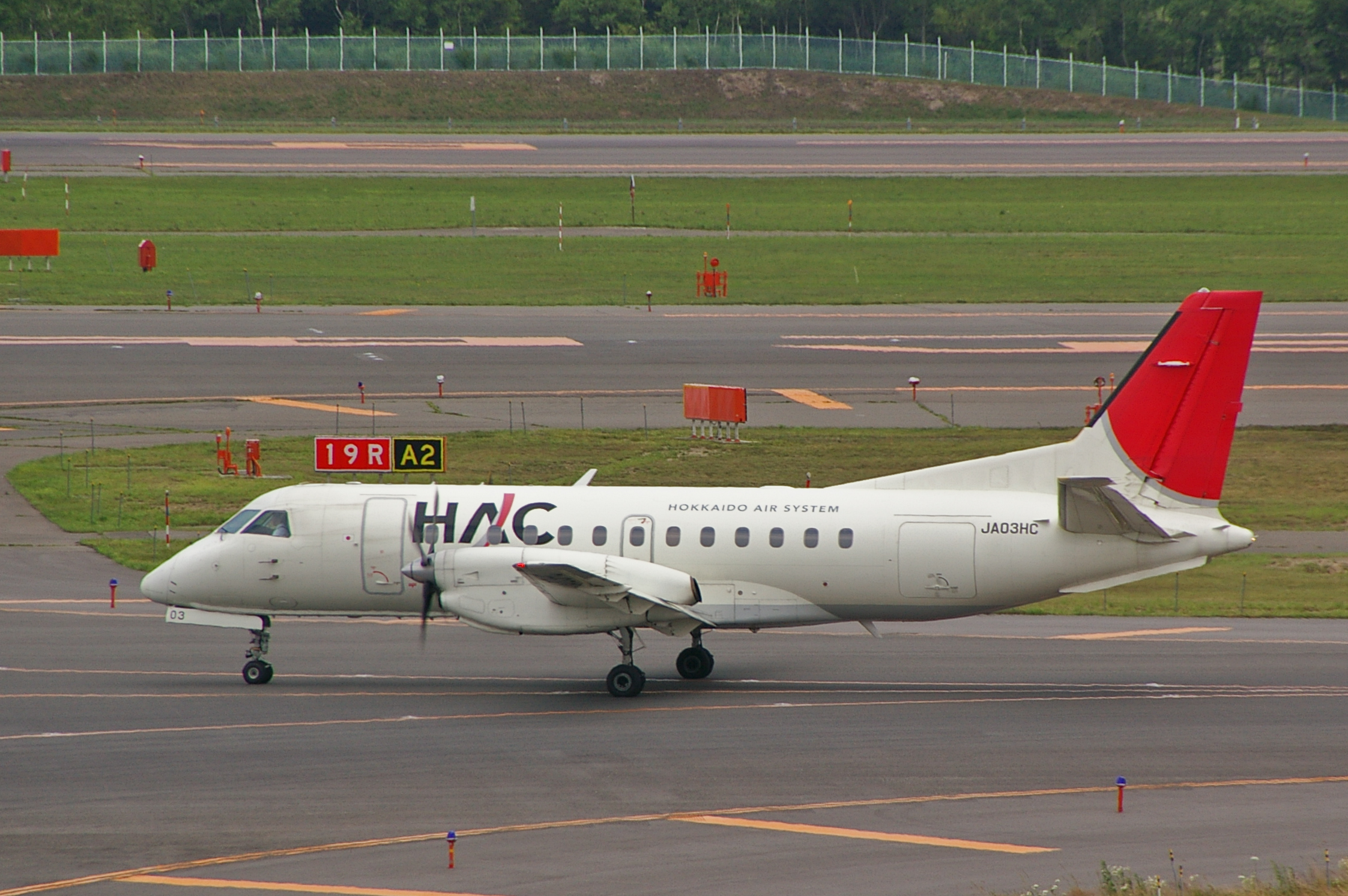 Photograph of Hokkaido Air System's Saab 340B-WT (JA03HC) taken from the observation deck of New Chitose Airport passenger terminal building in Chitose, Hokkaido, Japan.